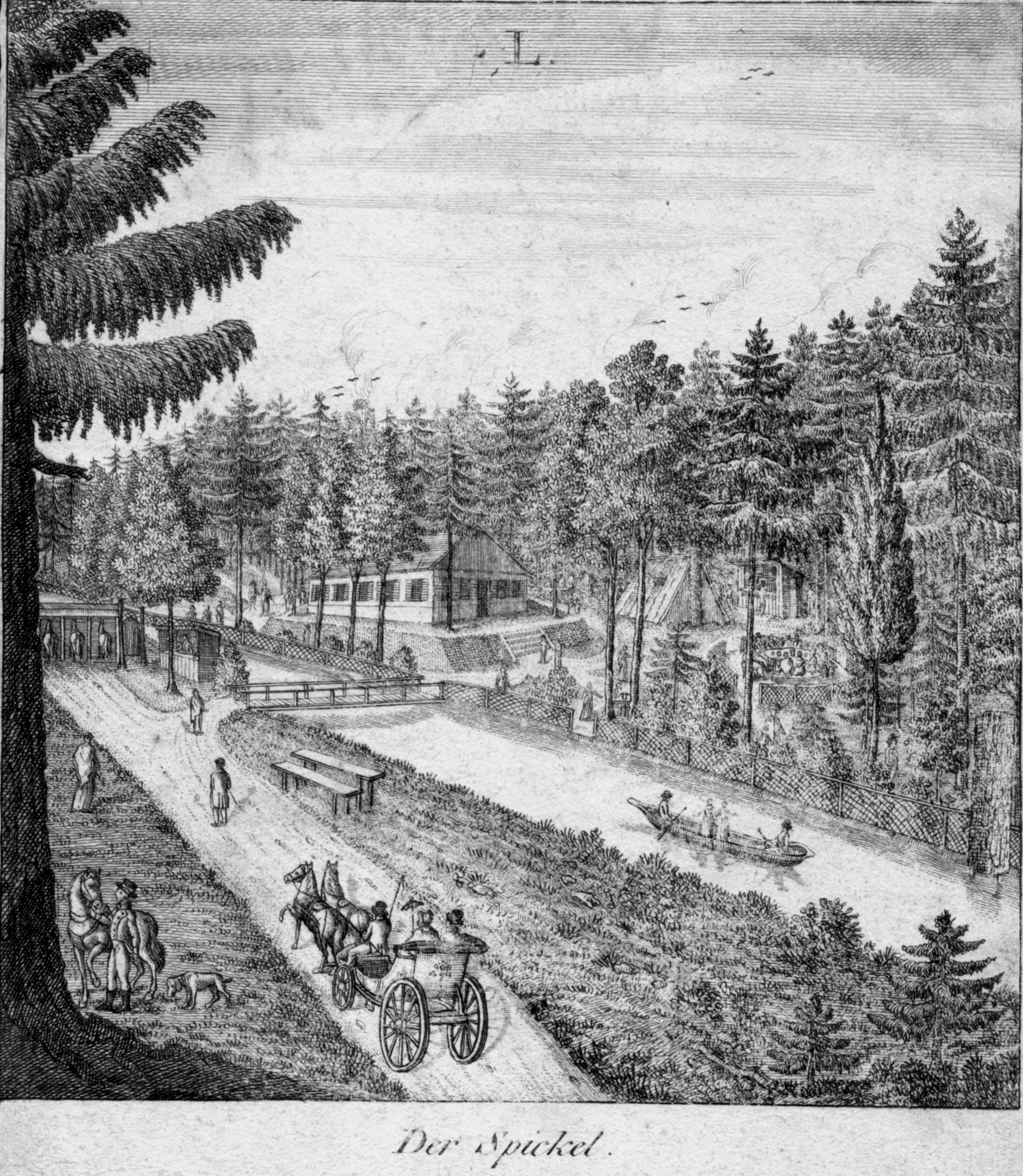 Engraving of "Der Spickel", an 18th century inn on a small island on the river lech at near Augsburg